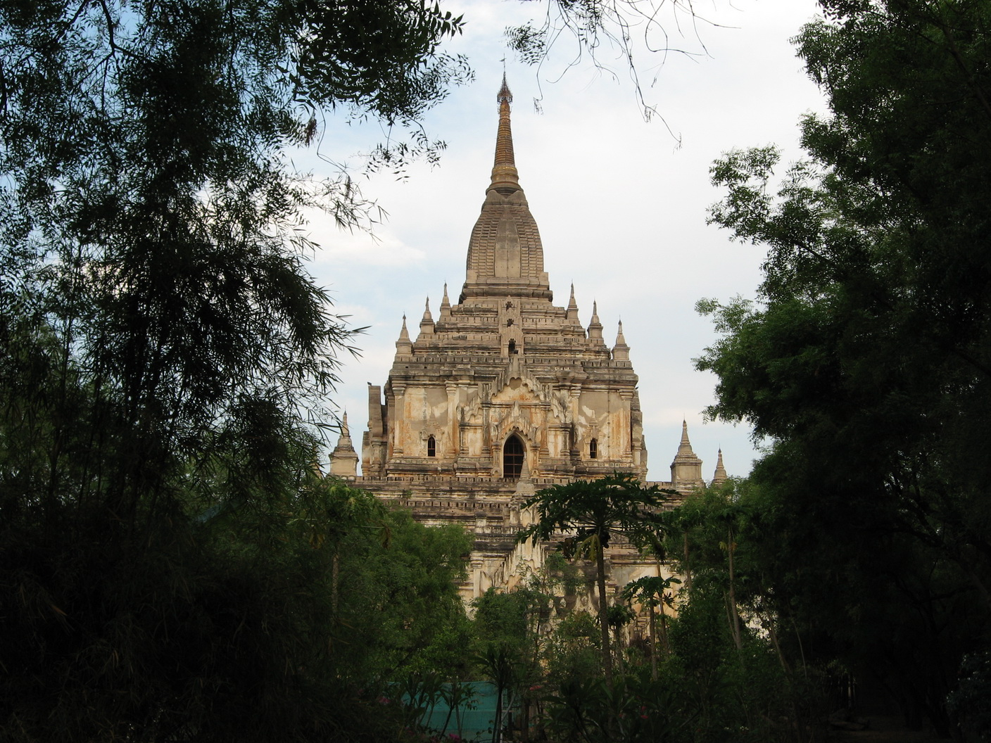 Templo de Gawdawpalin, Bagan.